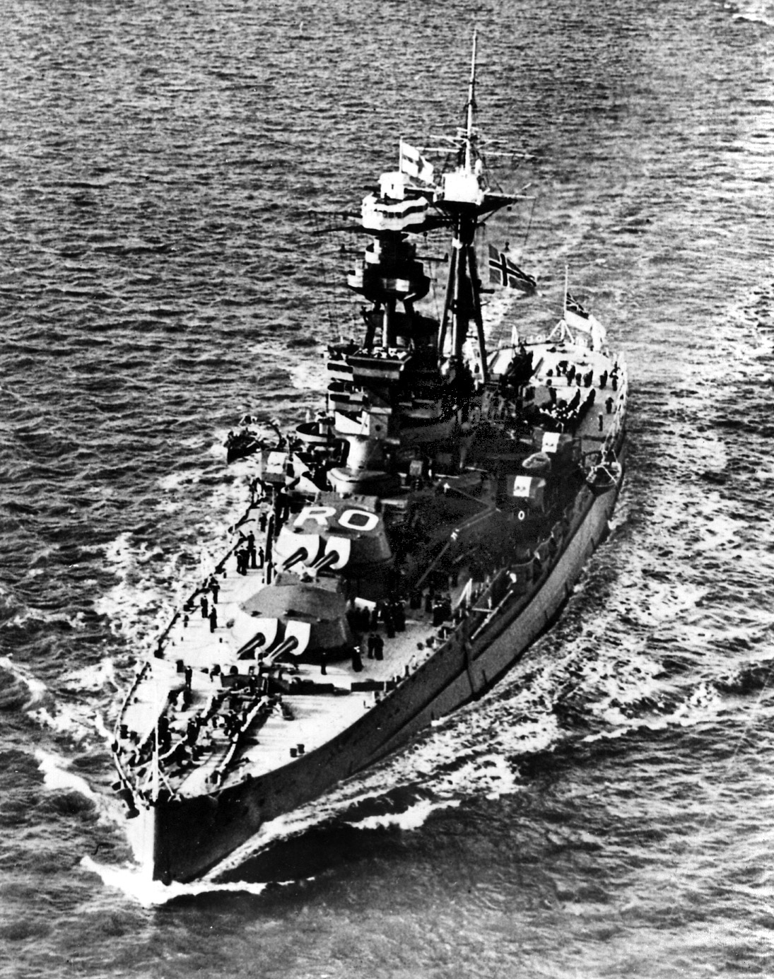 The British battleship HMS Royal Oak, flying the Norwegian flag and the White Ensign at half-mast, carries the body of Queen Maud back to Norway